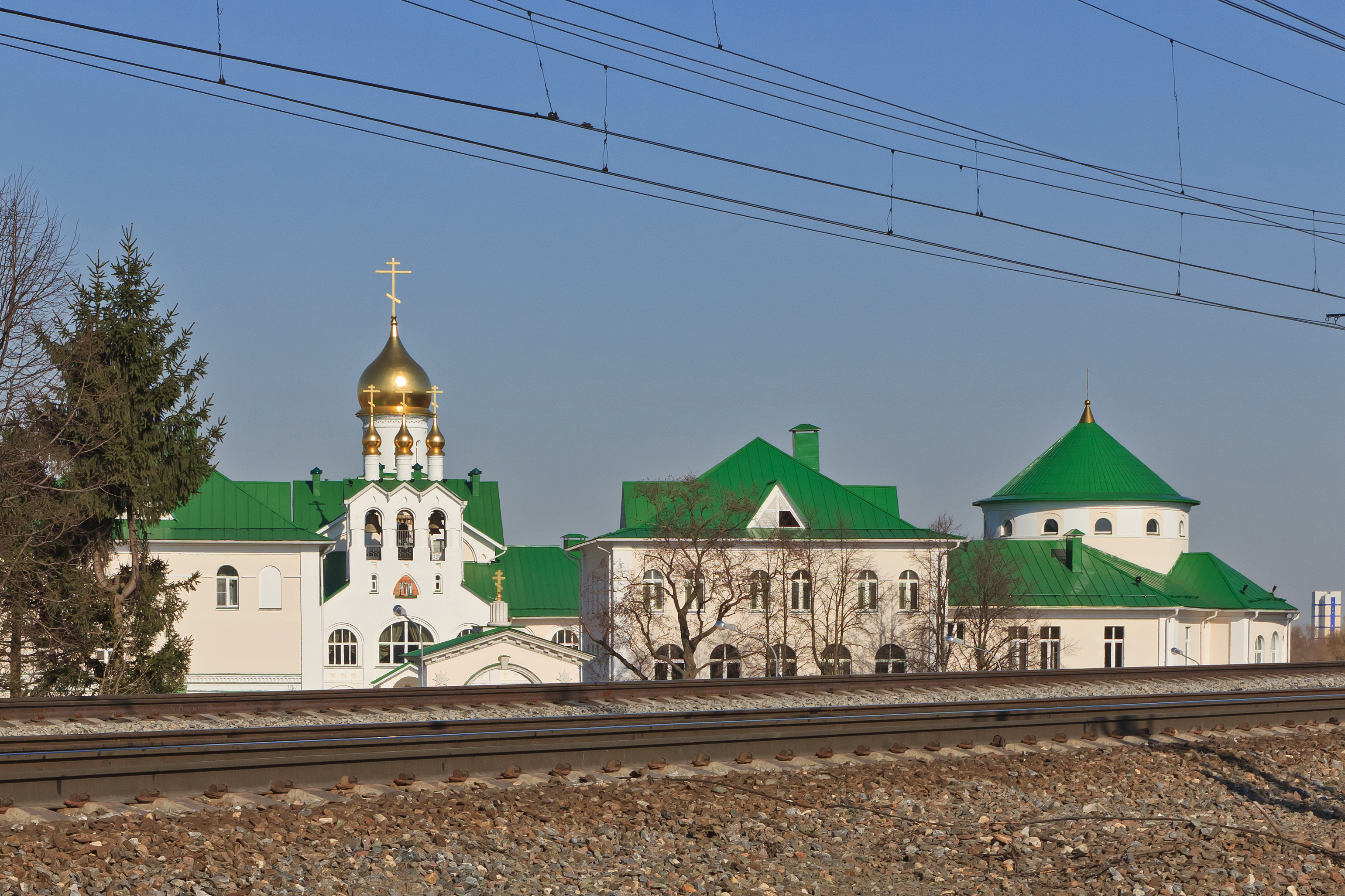 The seminary in Staro-Golutvin Monastery in Kolomna, Moscow Oblast, Russia.